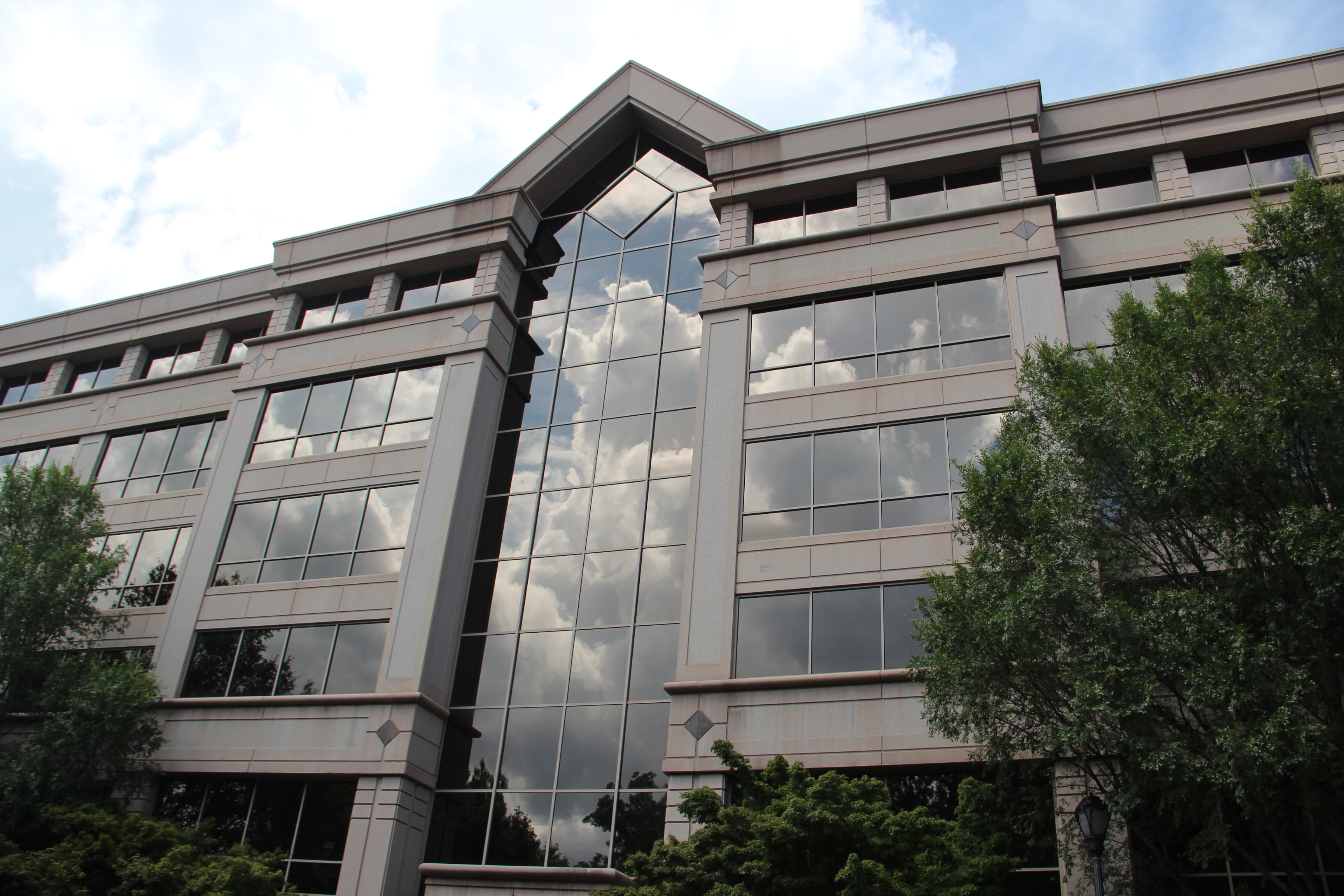 500 Colonial Center Pkwy Roswell, GA